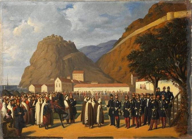 surrender of Algerian leader Abd al qadir to the French in 1847)